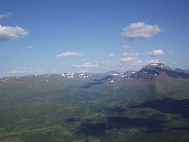 Evenesdal birdview